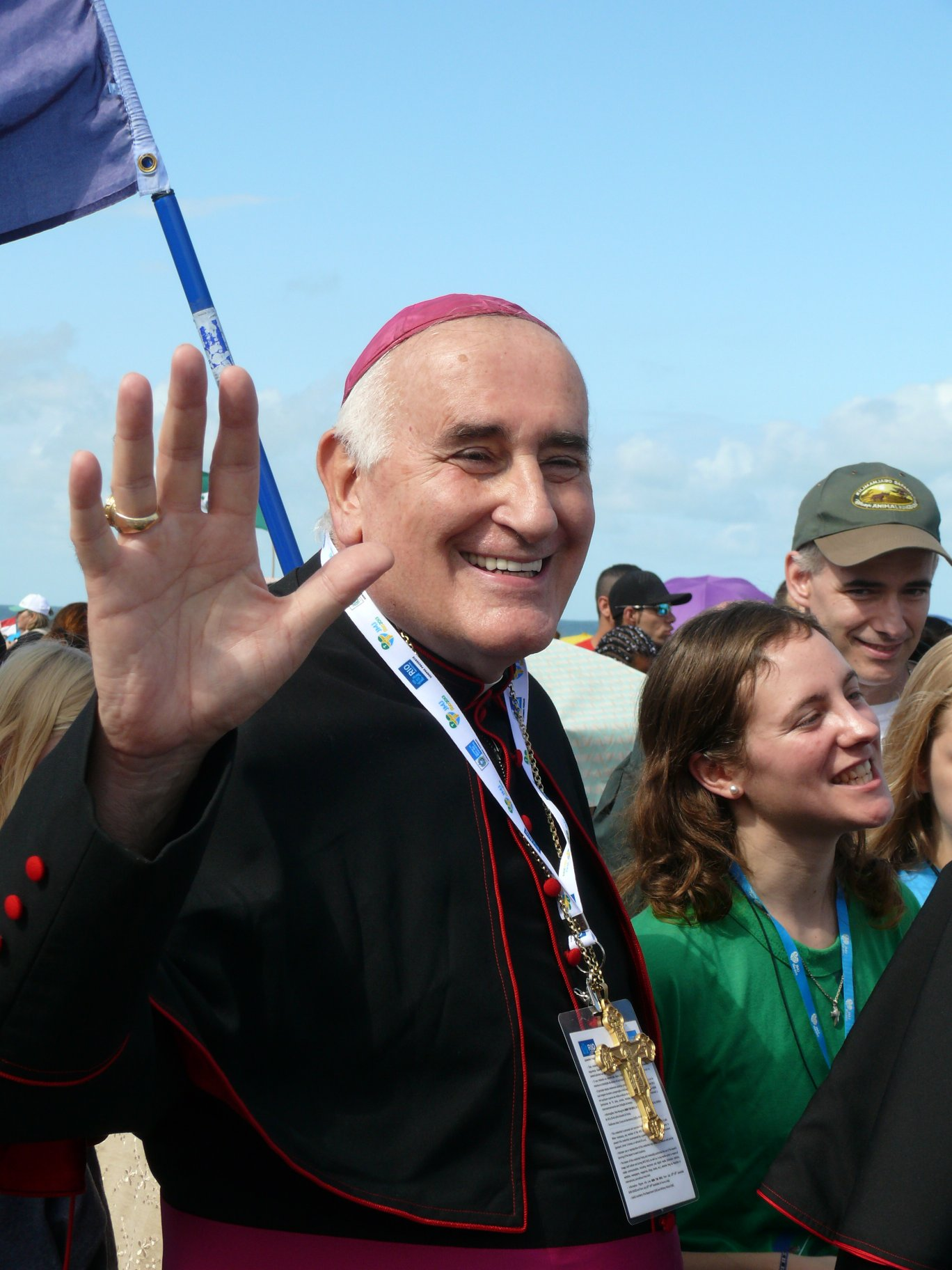 Bishop Donald Joseph Kettler of Fairbanks (Alaska, USA) during World Youth Day 2013 in Rio de Janeiro (Brazil).